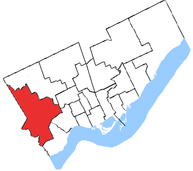 Map of the Etobicoke (electoral district) electoral district. Created by SimonP.